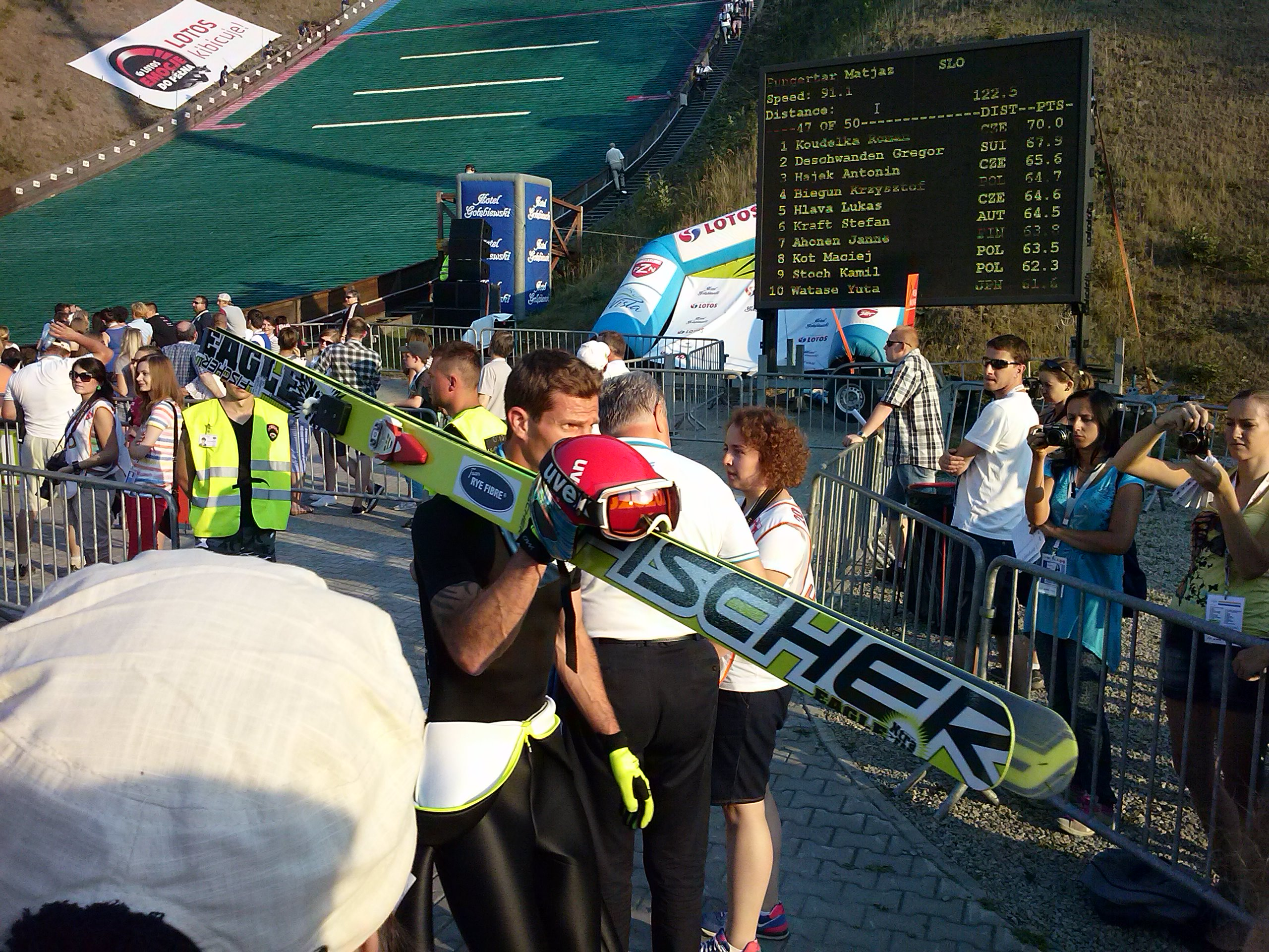 Janne Ahonen - finnish ski jumper during FIS Summer Grand Prix 2013 in Wisła.